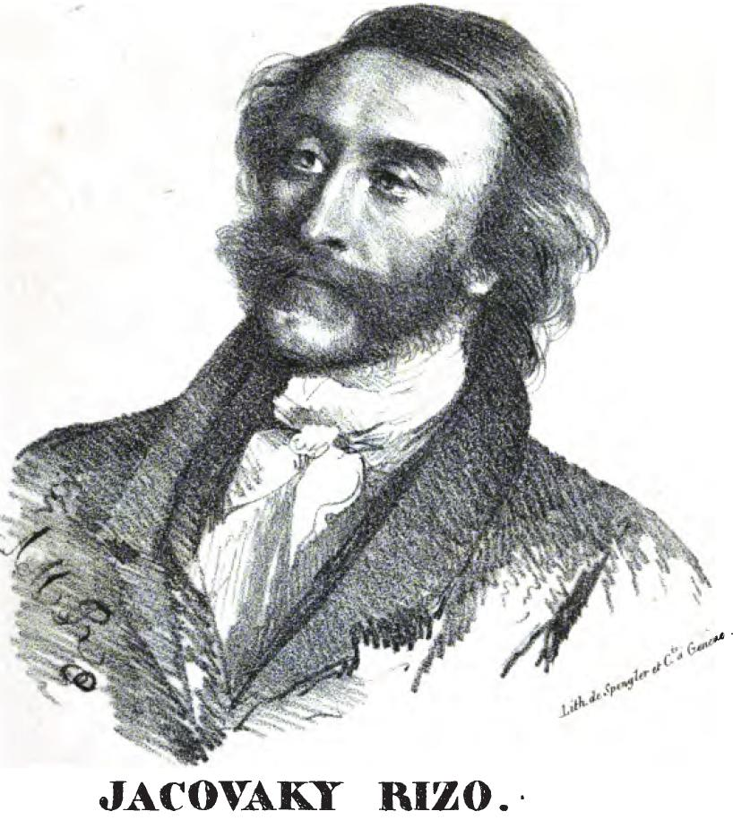 Cours de littérature grecque moderne, donée à Genève (1828) Author: Rizos, Iakōvos, 1778-1849; Humbert, Jean Pierre Louis, 1792-1851, ed Subject: Greek literature, Modern Publisher: Genève, A. Cherbuliez; Paris, Dondey-Dupré Possible copyright status: NOT_IN_COPYRIGHT Language: French Digitizing sponsor: Google Book from the collections of: New York Public Library Collection: americana